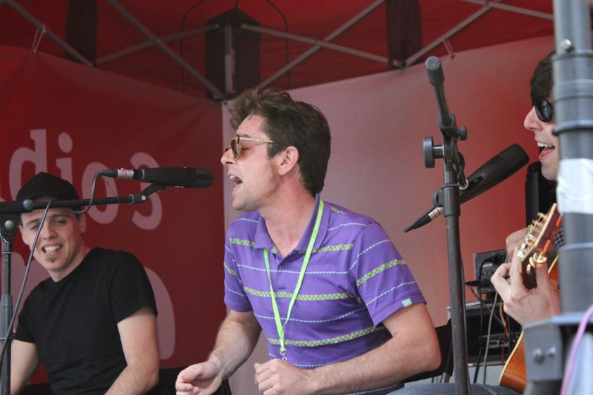 The Pinker Tones 2010